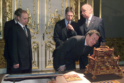 ST PETERSBURG. President Vladimir Putin and German Chancellor Gerhard Schroeder visiting the Tsarskoye Selo estate-museum and the Catherine Palace.